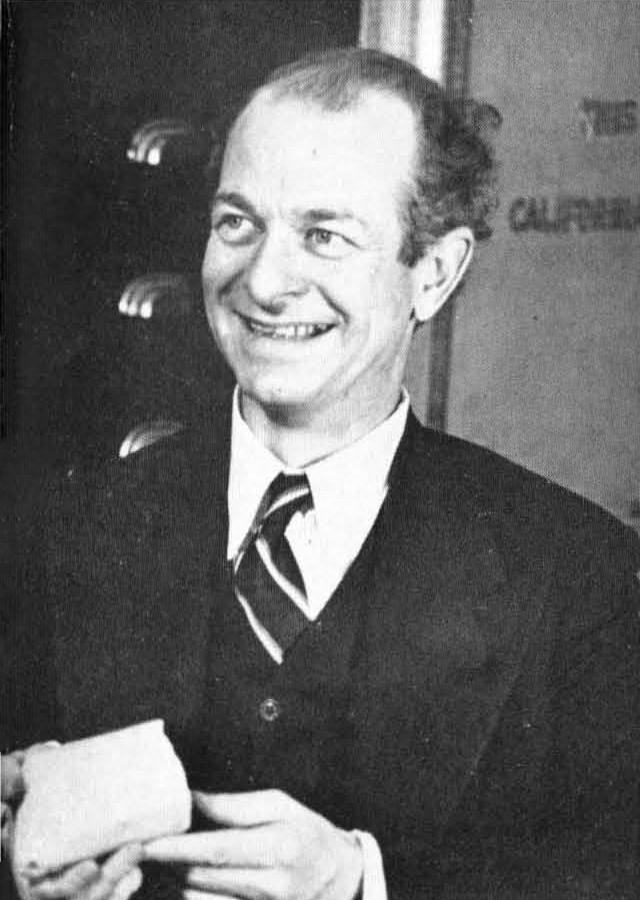 Linus Pauling in 1948